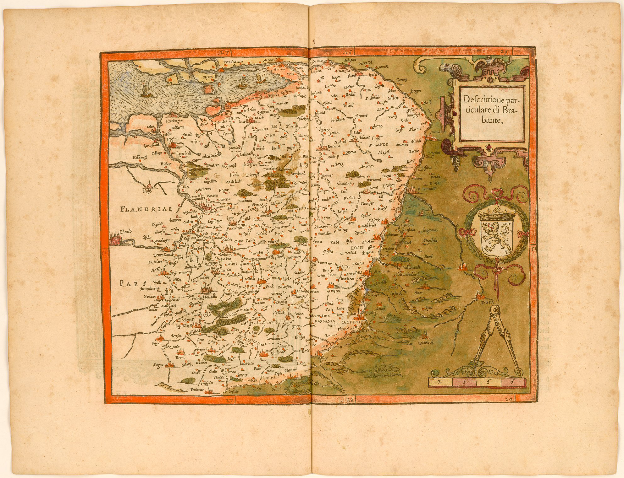 Engraved and colored map of the duchy of Brabant or present-day Netherlands and Belgium. Also includes the coat of arms of the duck, a scale, and dividers. Text in Italian. Published in Antwerp.